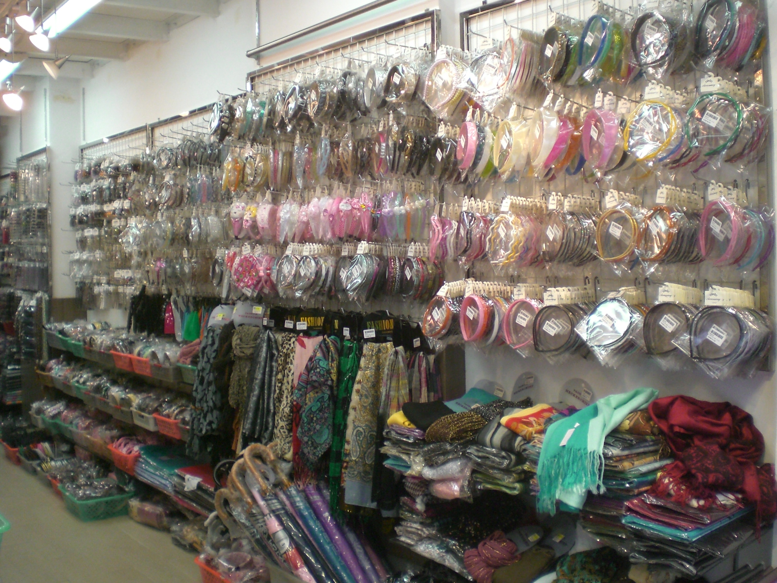 上環zh:永吉街zh:人造首飾zh:零售及zh:批發